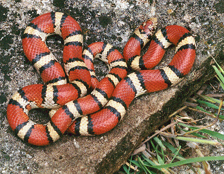 Red milk snake (Lampropeltis triangulum syspila) User licence kindly provided to Wikipedia under the GFDL by photographer: Mike Pingleton Mike's page